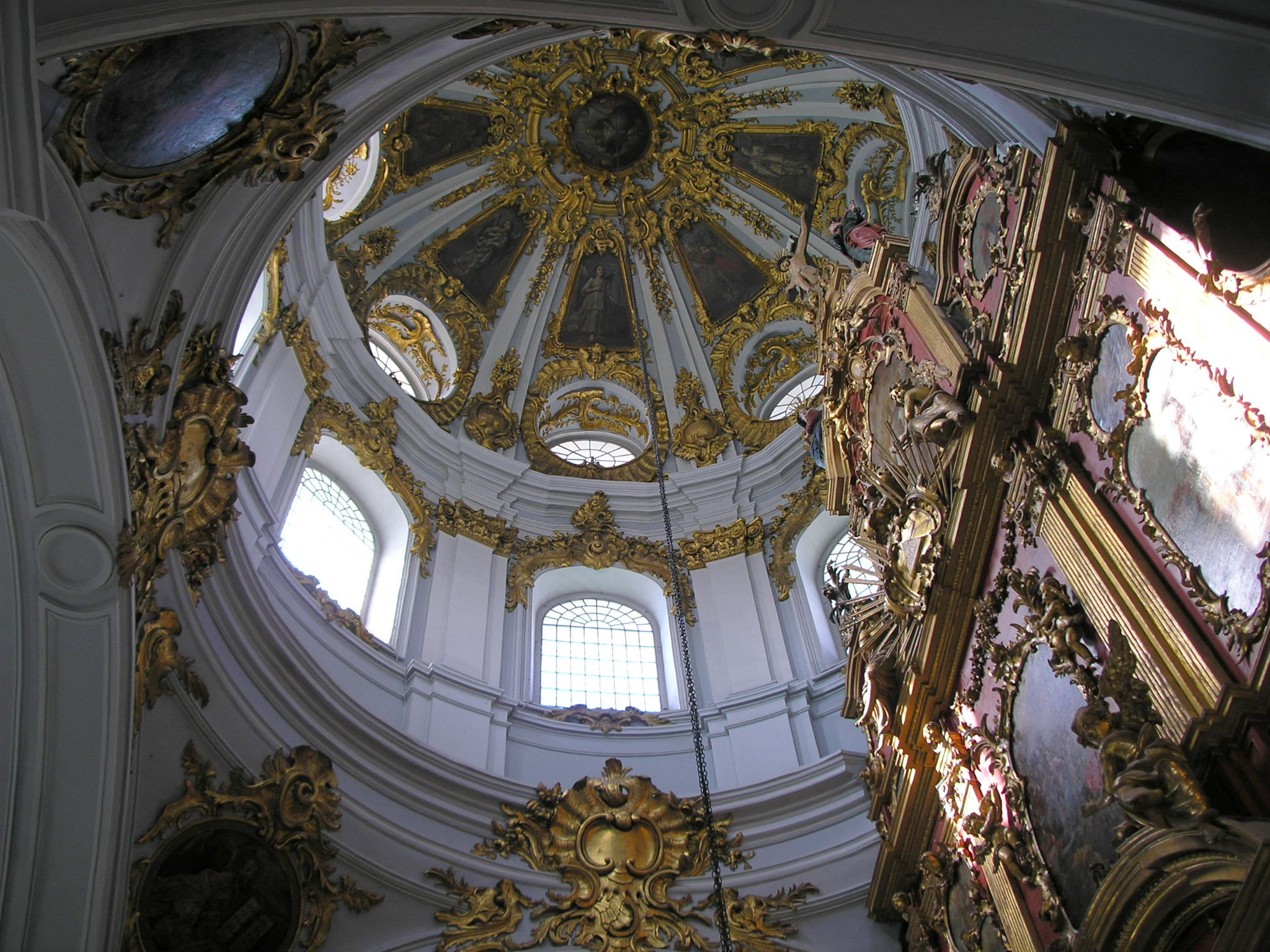 The central dome of the St. Andrew's Church in Kiev, Ukraine.